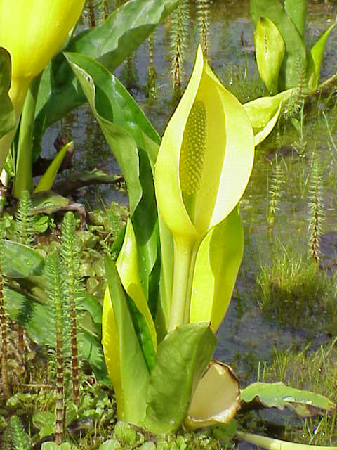 Species: Lysichiton americanus Family: Araceae Image No. 2